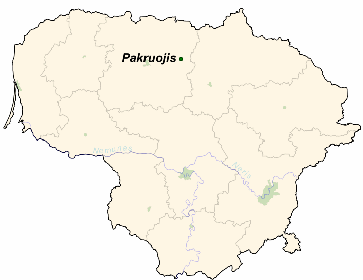 Pakruojis on the map of Lithuania